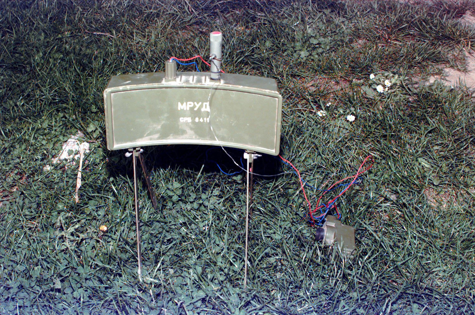 A close up view of a Former Yugoslavia MRUD ANTI-PERSONNEL MINE (back side view).